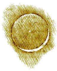 Sketch by Leonardo da Vinci of Earthshine from NASA.